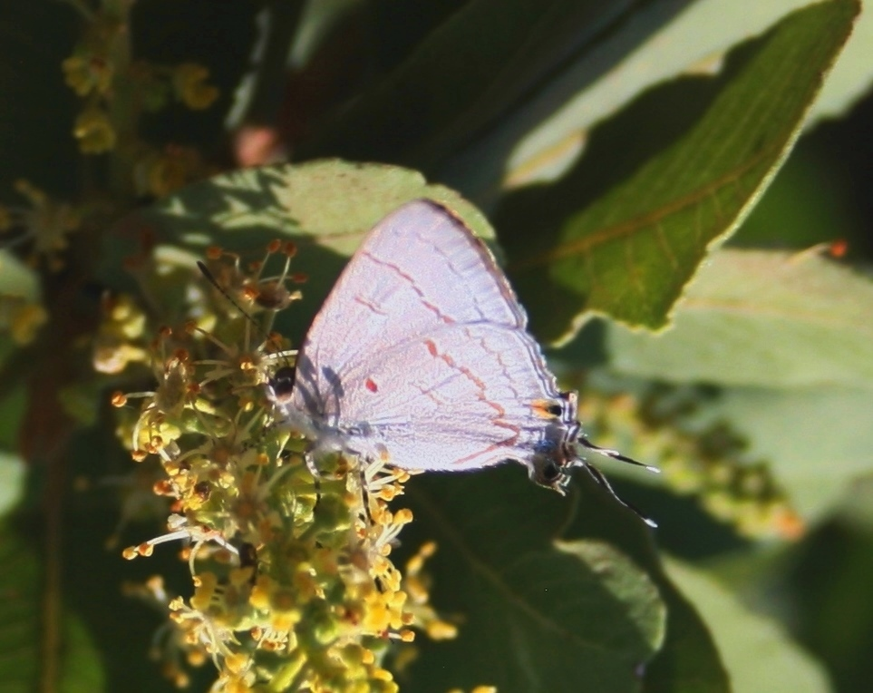 Imago of Hypolycaena philippus feeding at inflorescence of Pappea capensis at De Wildt 4x4 Game Park